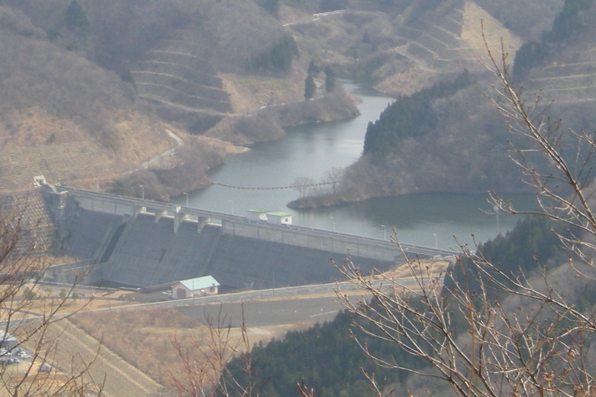 Miyatoko dam's face. Clipped from File:MiyatokoDam-fromSasakurayama.jpg, that was taken from Sasakurayama, located in the north of the dam.